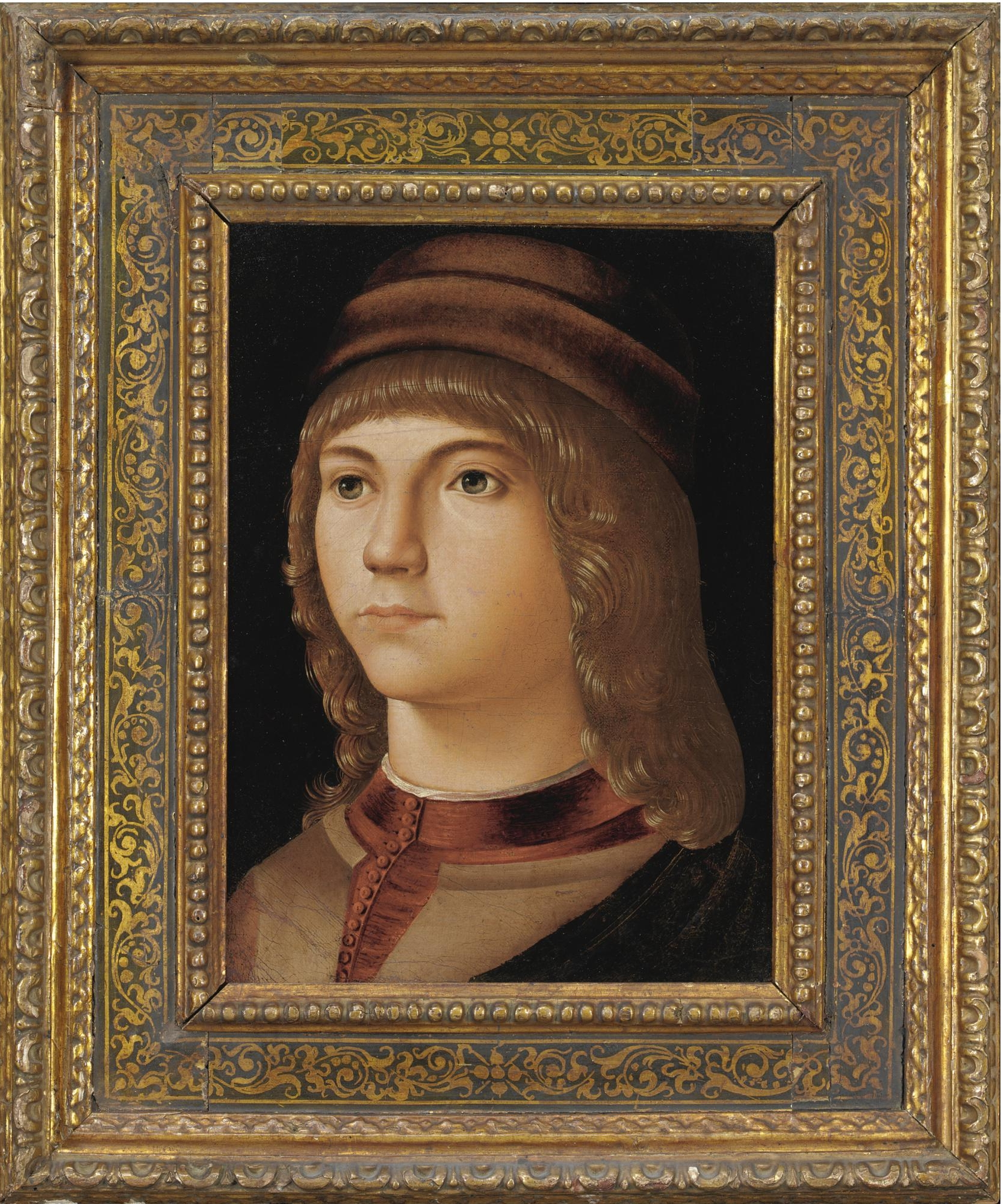 Portrait of Giovane